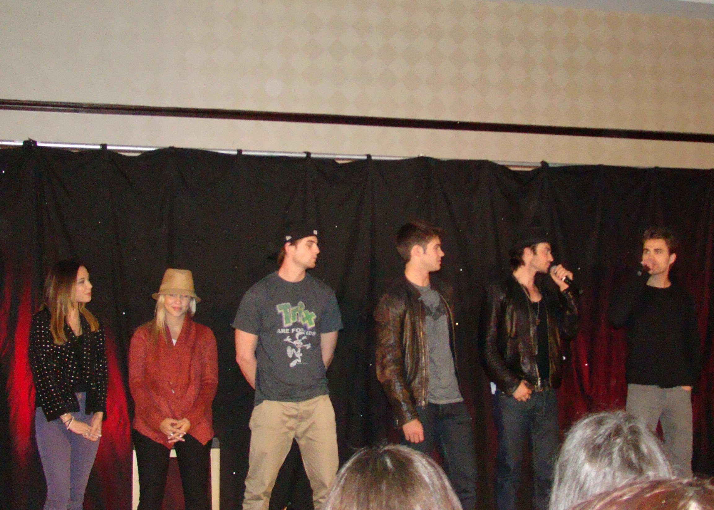 Malese Jow, Claire Holt, Nate Buzolic, Steven McQueen, Ian Somerhalder & Paul Wesley